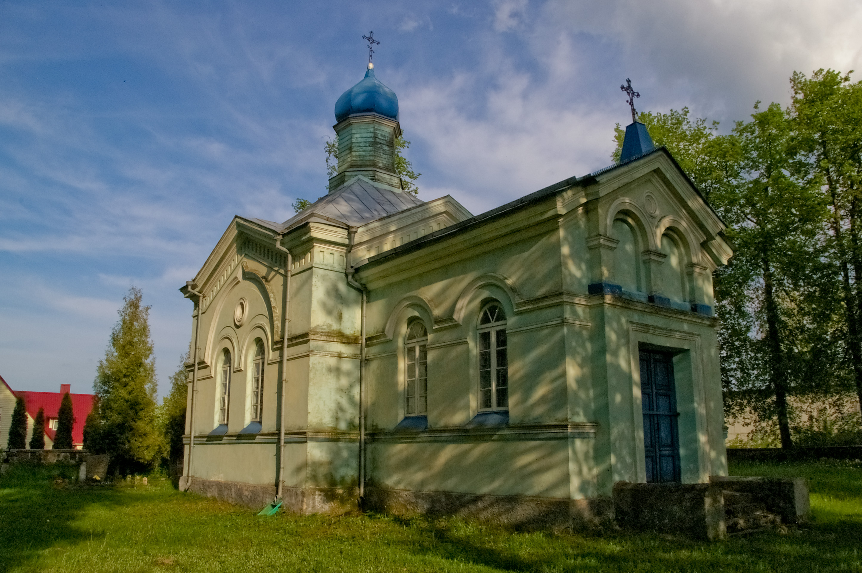 Raguva Orthodox Church.